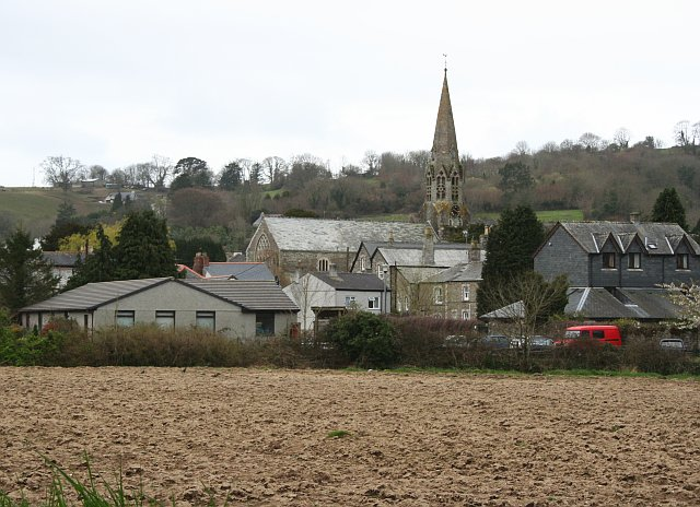 Lostwithiel from the Riverbank